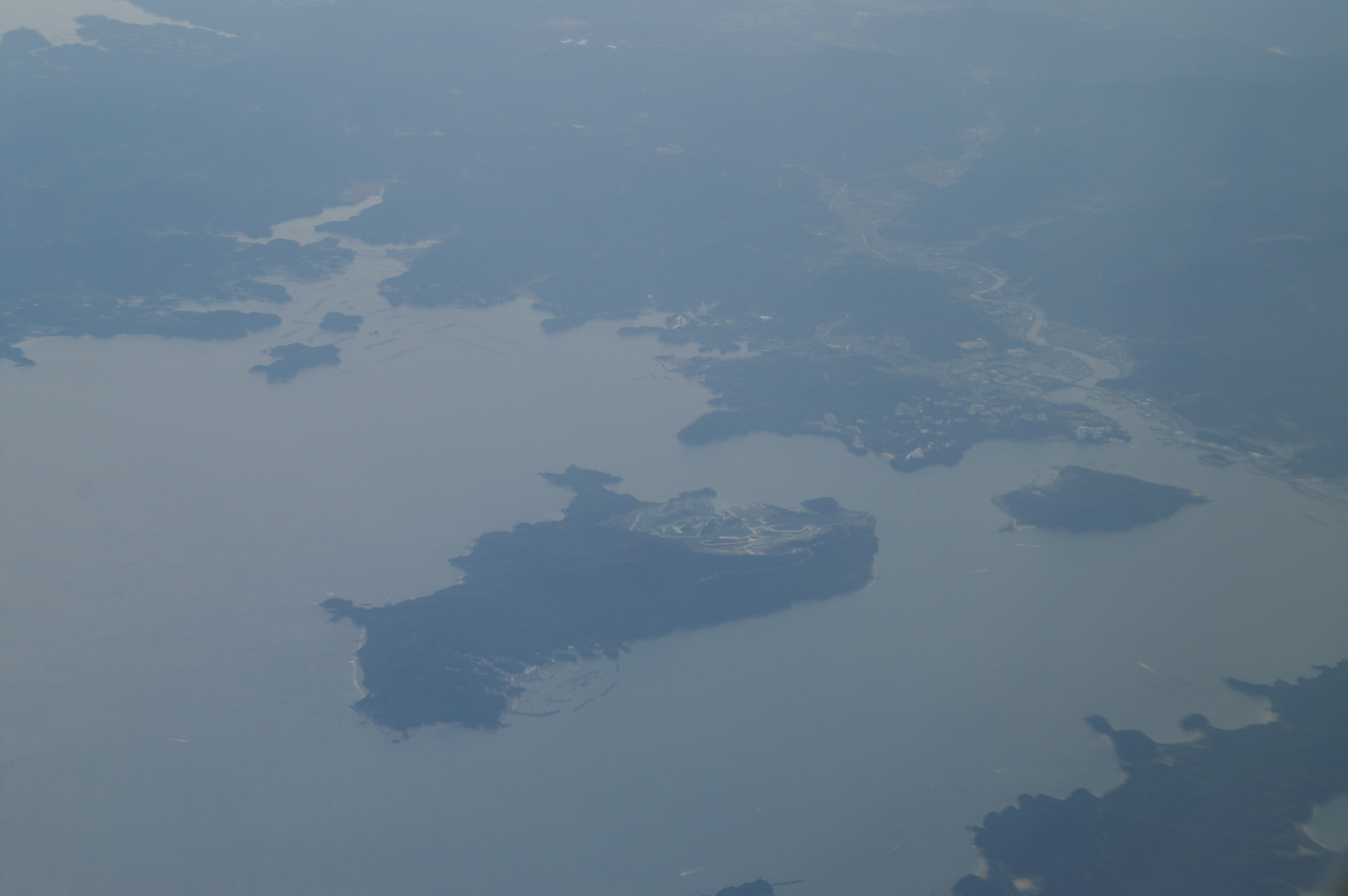 Sugashima Island in Toba, Mie, Japan. (2006/11/22 In Flight, NH143, JAPAN)